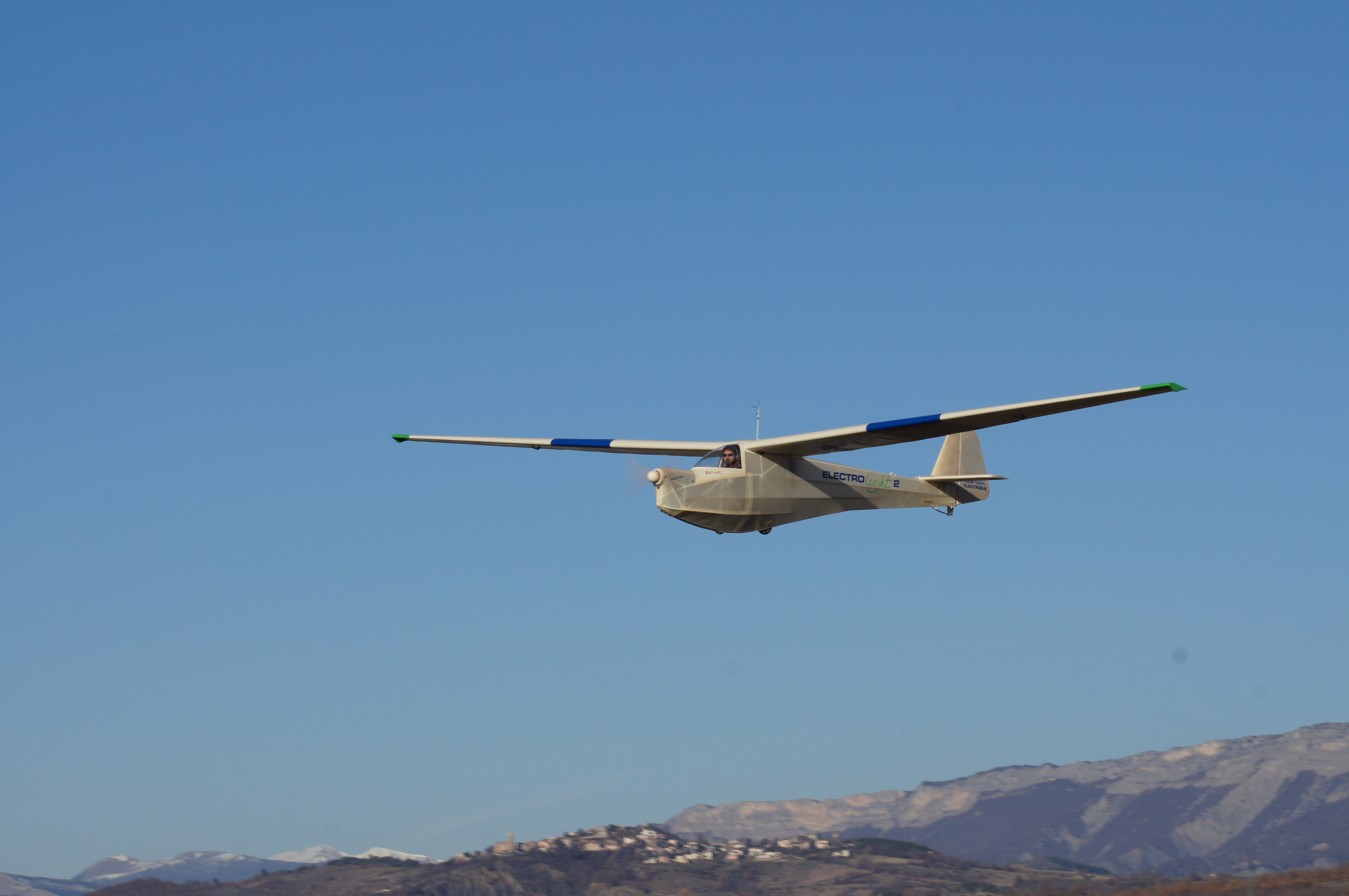 Electric motoglider ElectroLight2. Design, electric engines and batteries : ELECTRAVIA. First flight in Dec, 2011. Owner : Electravia, Sisteron, France